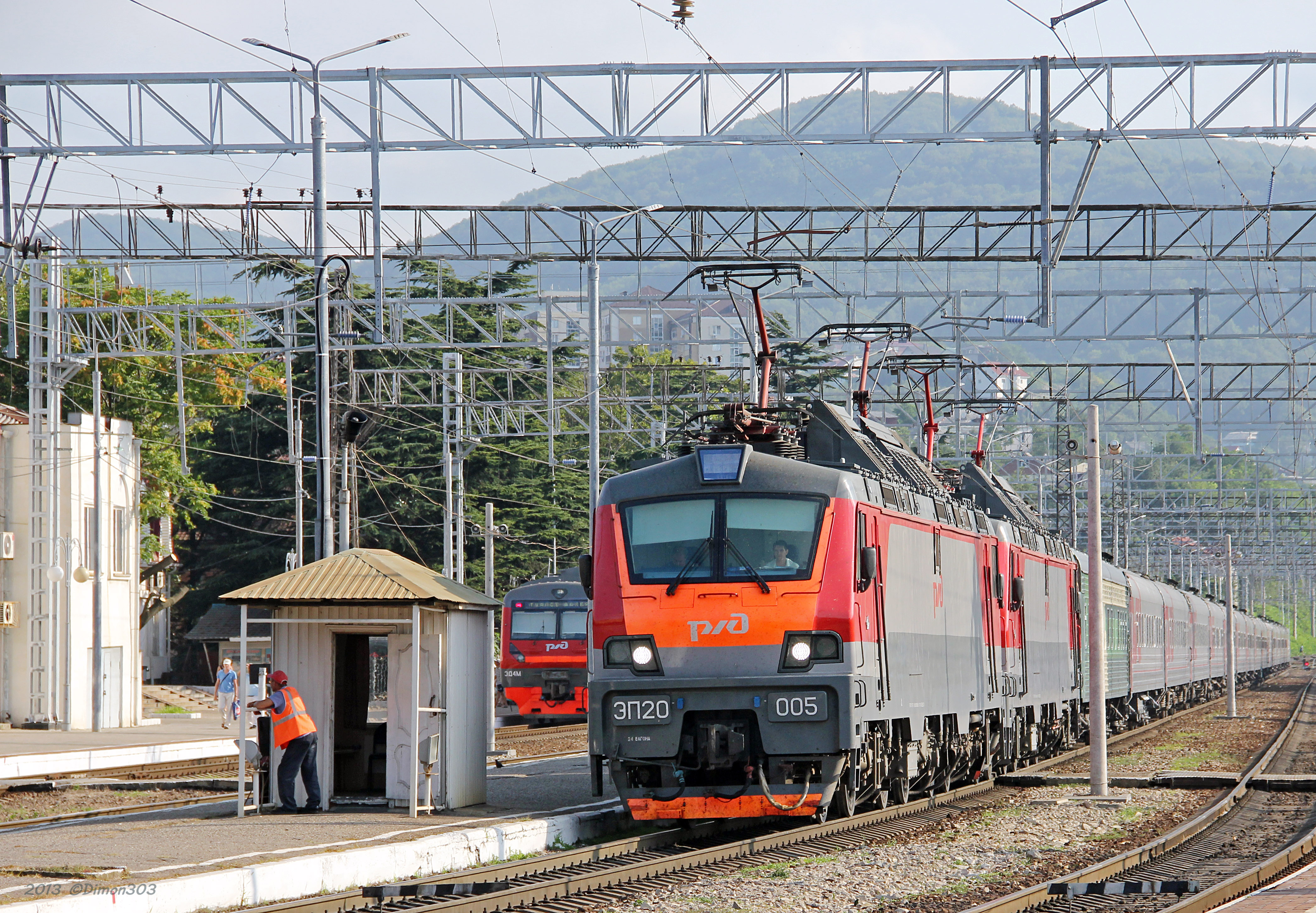 Two EP20 electric locomotives with passenger train on "Tuapse-passanger" station.